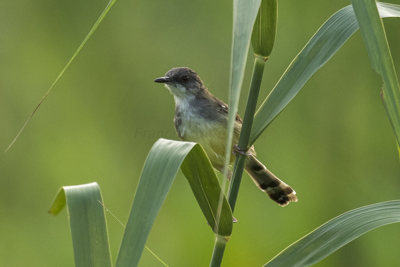 Bar-winged Prinia - Muara Angke - West Java_MG_5104